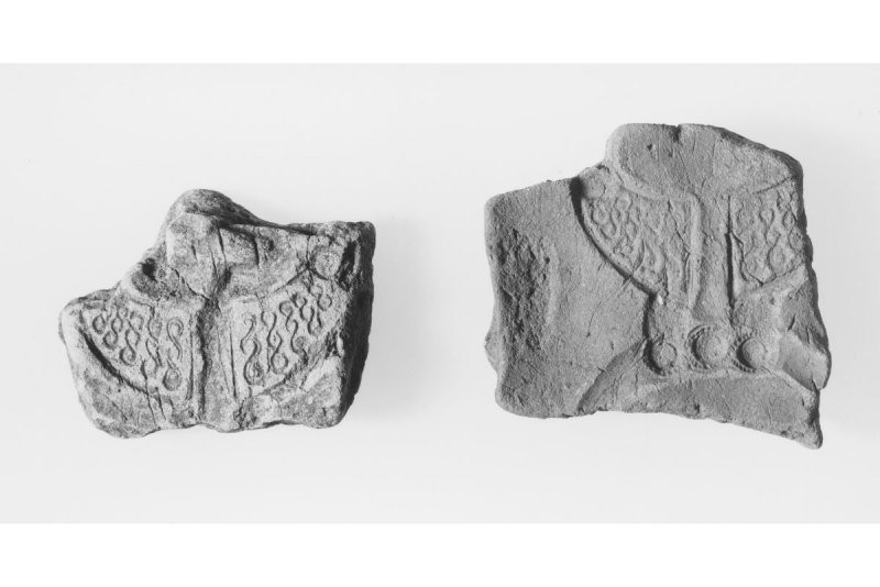 Ceramic moulds for the casting of pennanular brooches. Recovered from Clatchard Craig, Fife, during excavation in the nineteen-fifties.